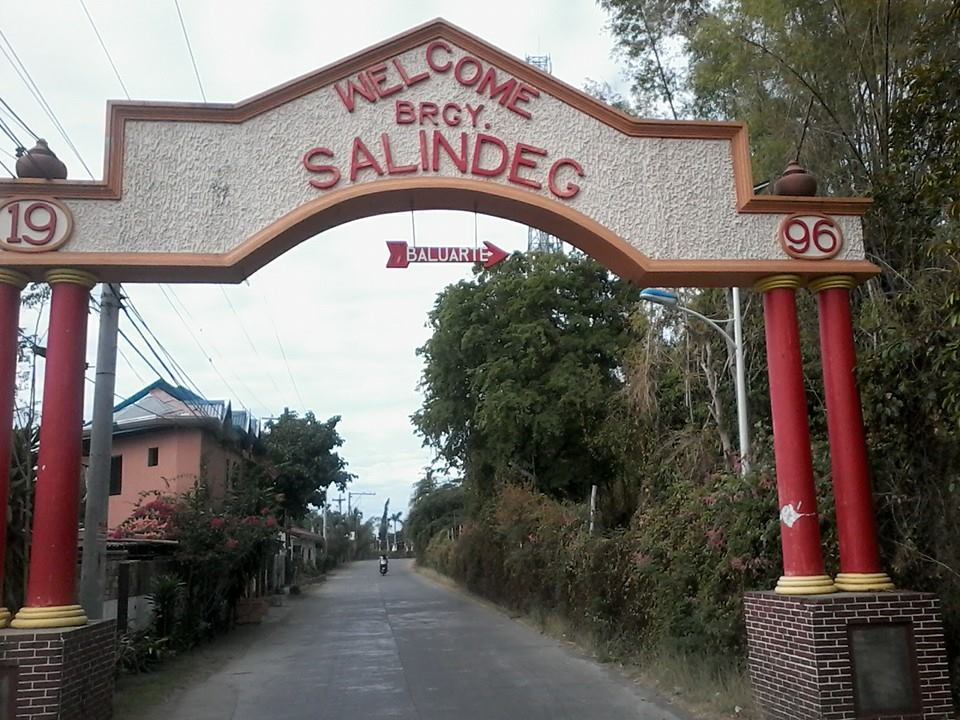 public plaza of Salindeg